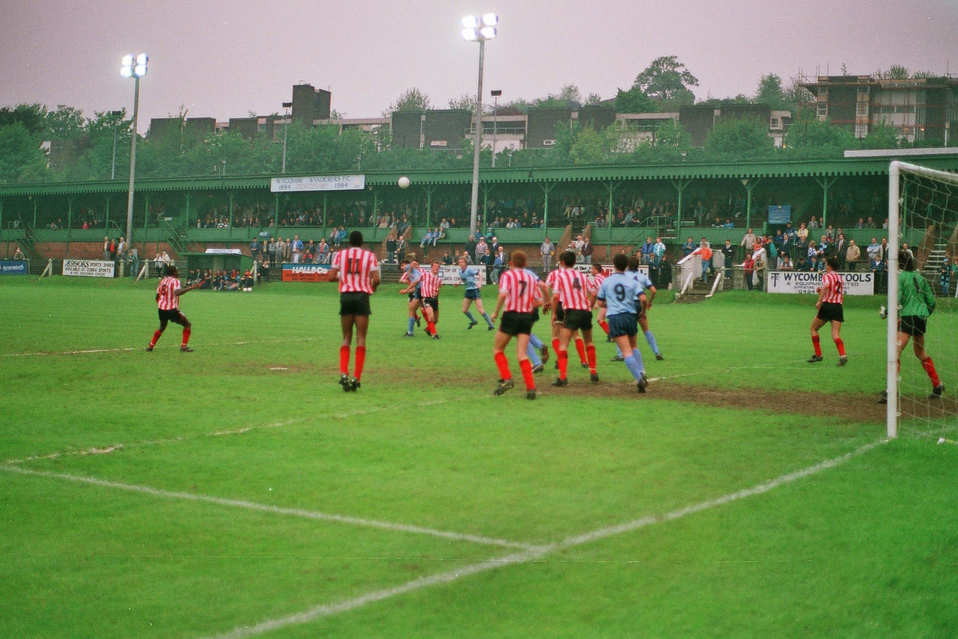 An atmospheric Loakes Park at dusk stages the President's Cup final v Brentford 12/05/1988